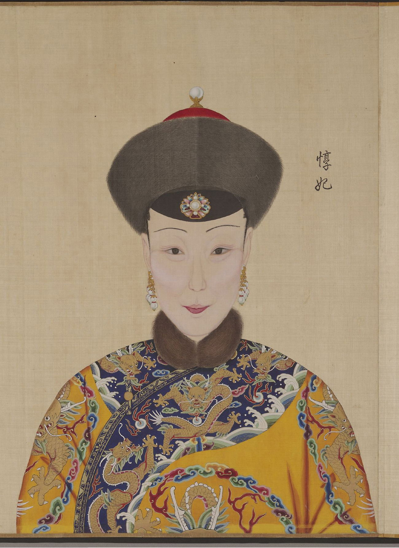 Part of the painting Qianlong Emperor and His Consorts, features the Consort Dun (惇妃) of Qianlong Emperor.